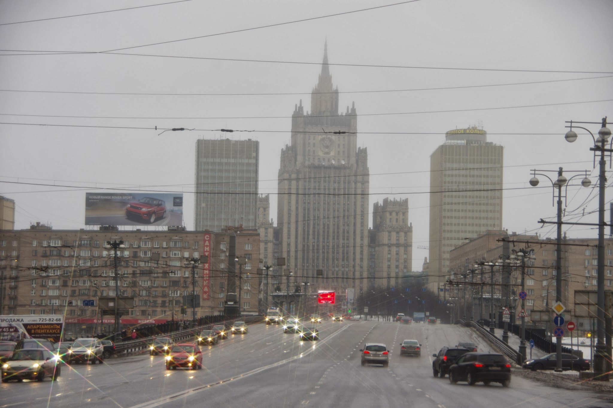 View of Smolenskaya Street, Moscow, Russia, from Dorogomilovo